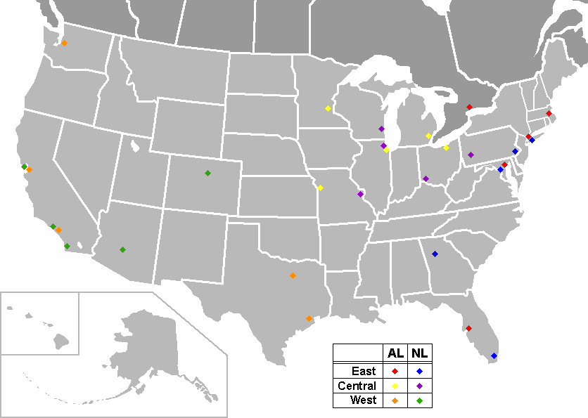 Locations of Major League Baseball teams.